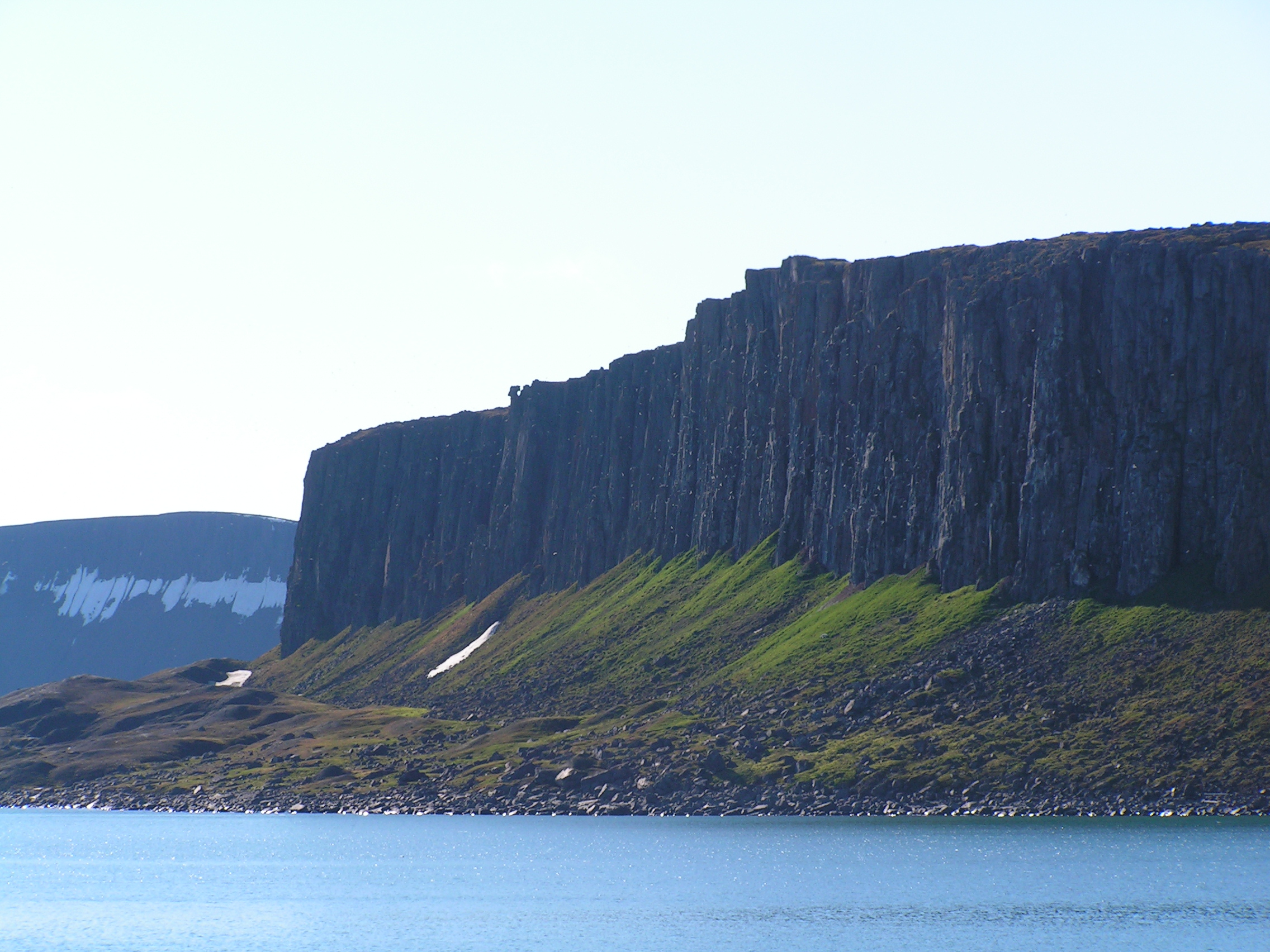 Dorst bay on Barents Island